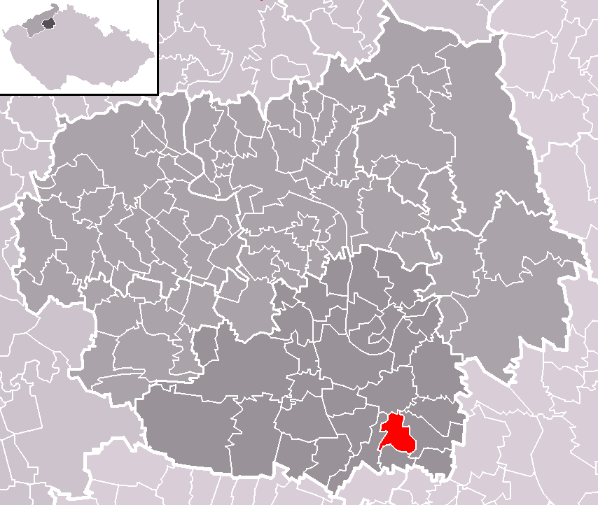 Location of Ctiněves municipality within Litoměřice District and administrative area of Roudnice nad Labem as a Municipality with Extended Competence.